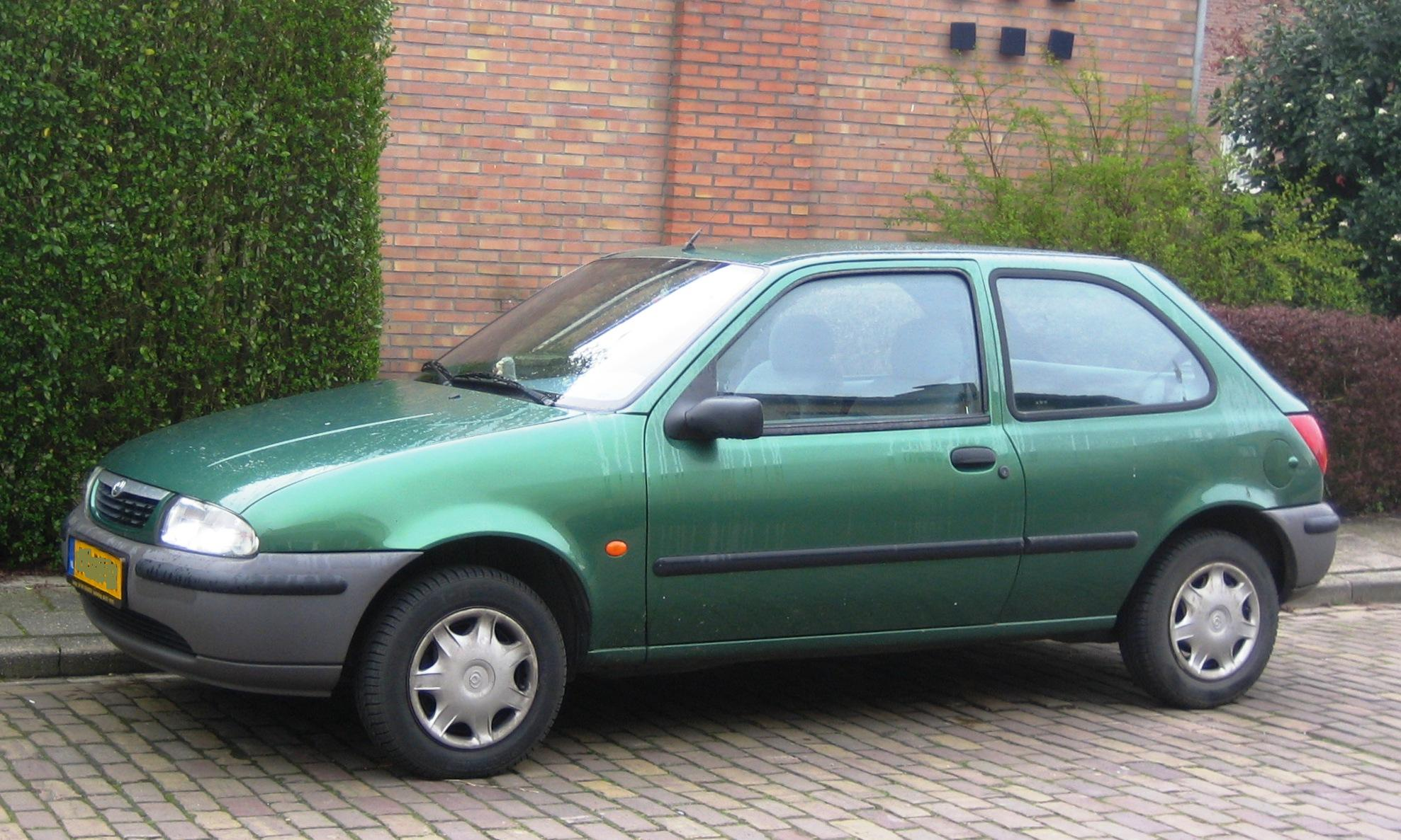 Mazda 121 (Fiesta Based) 1999